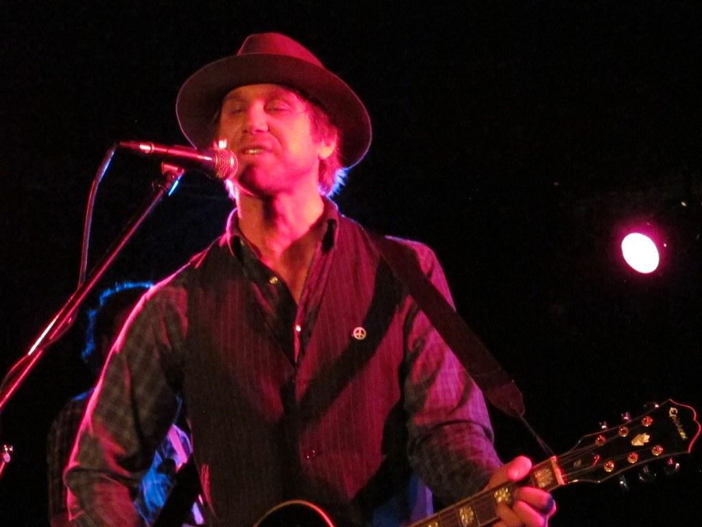 The singer Todd Snider performing live